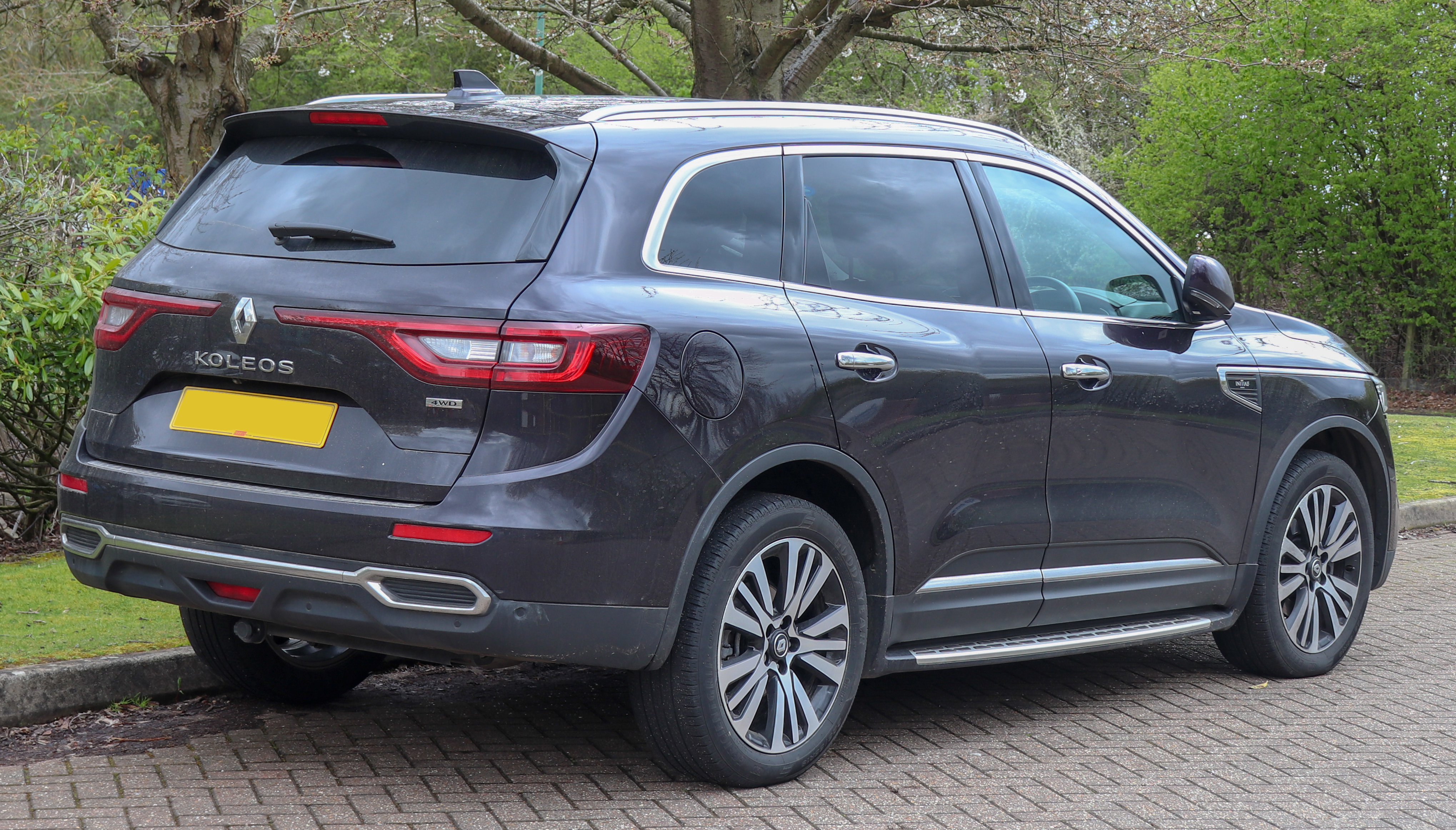 2018 Renault Koleos Initiale Paris DCi 4X4 2.0 Rear Taken in Leamington Spa